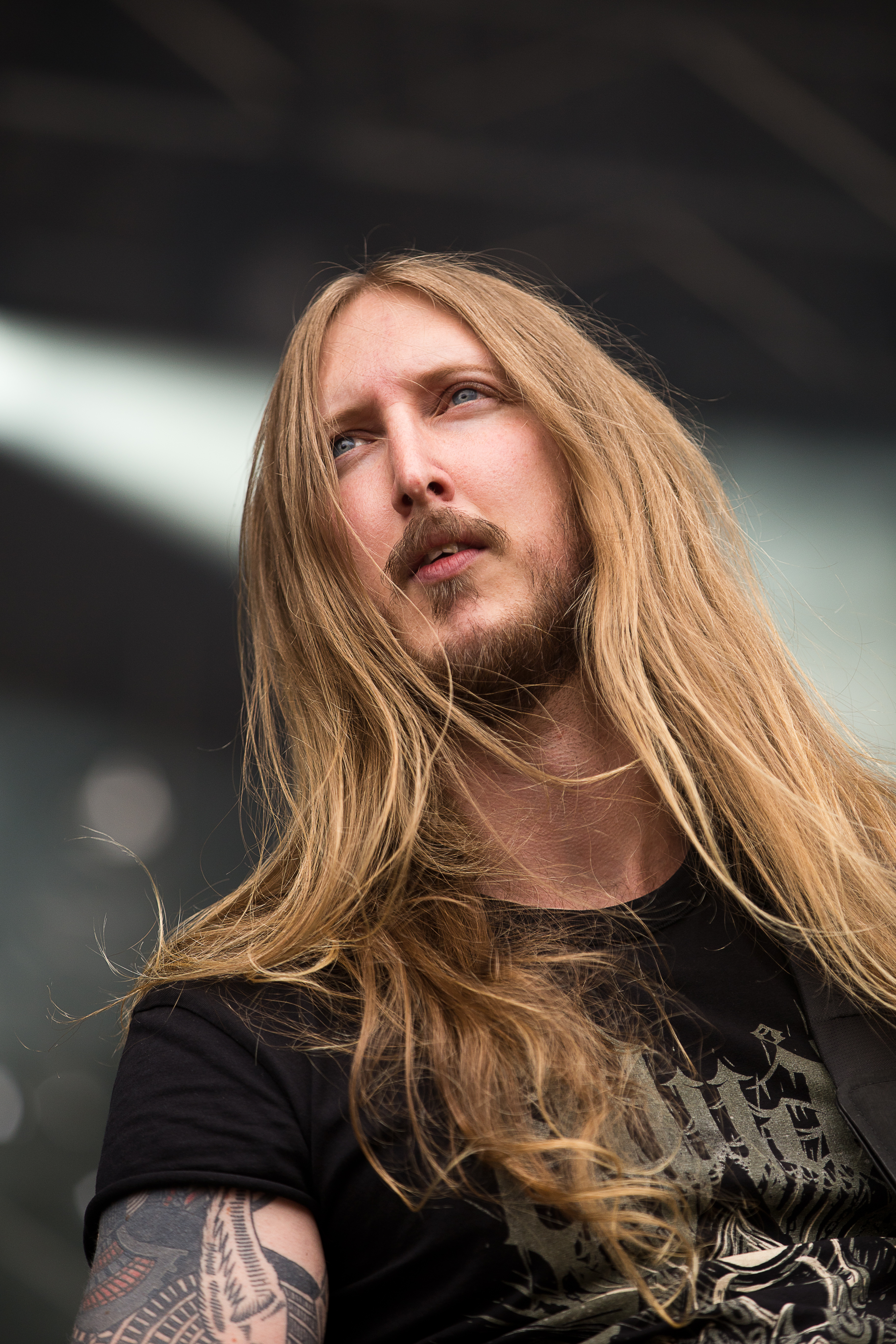 The Swedish thrash metal band The Haunted at the Rockharz Open Air 2015 in Ballenstedt/Germany.